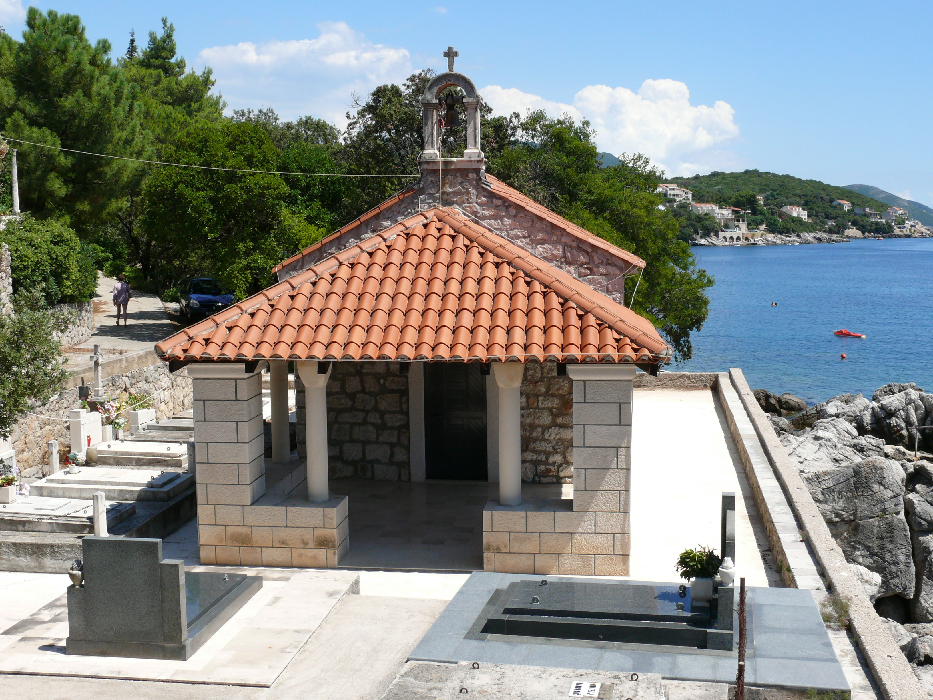 Molunat St. Nicola Church